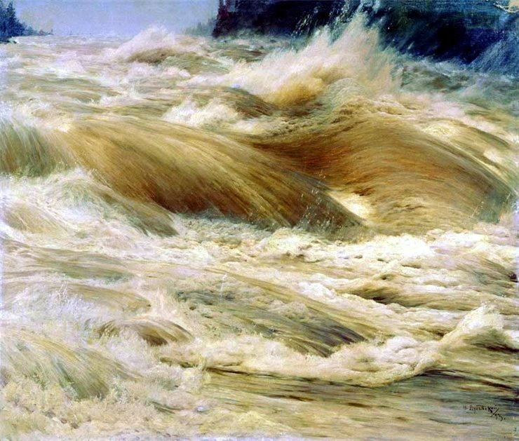 The Waterfall Imatra. 1893. Oil on canvas. 140x167 cm. The M.P. Kroshitskiy Sevastopol Art Museum, Sevastopol, Ukraine.